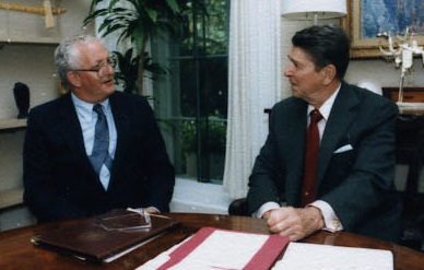 Herman Nickel and Ronald Reagan in Oval Office